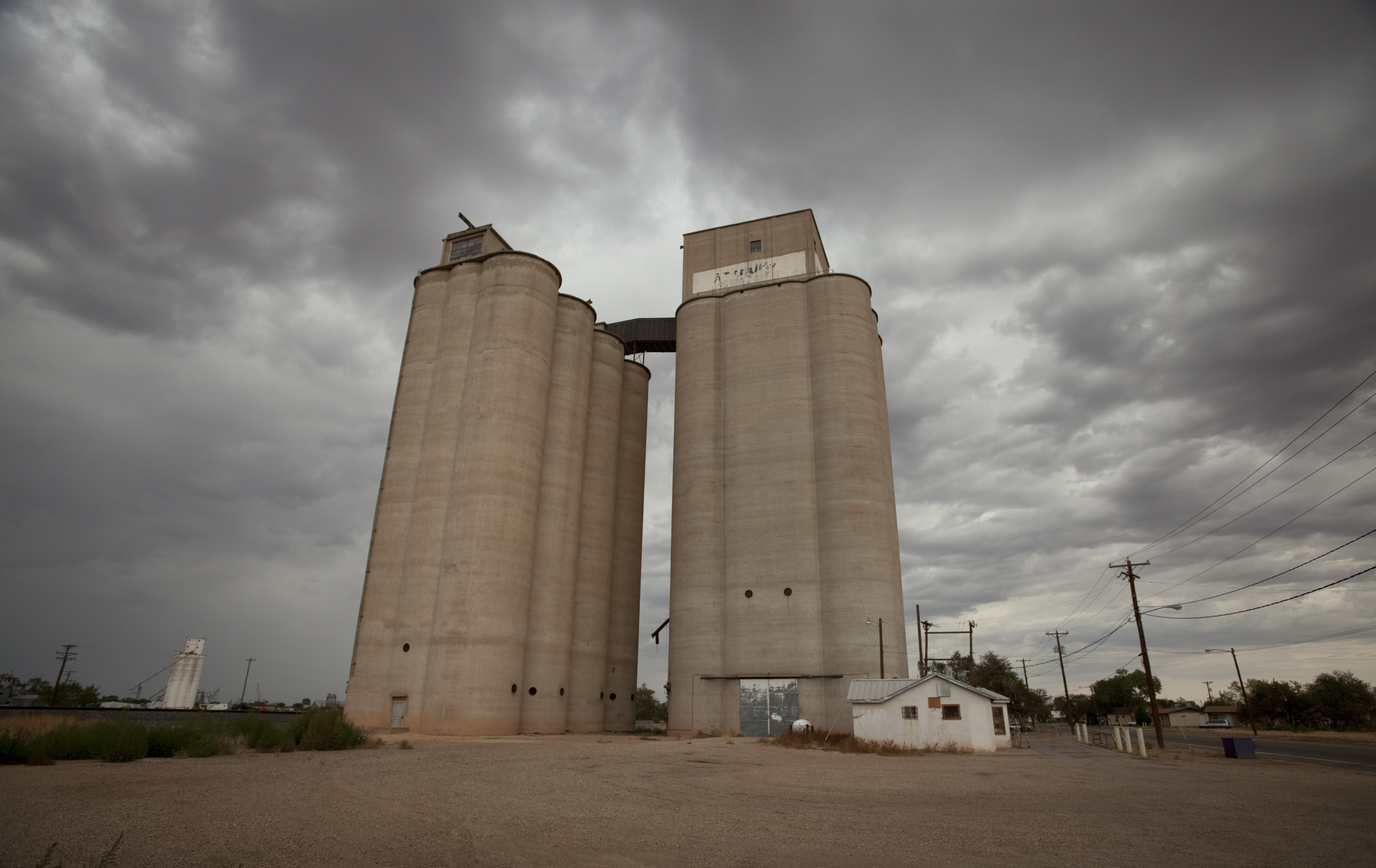 The old Attebury grain elevator along the tracks in Tucumcari, New Mexico.